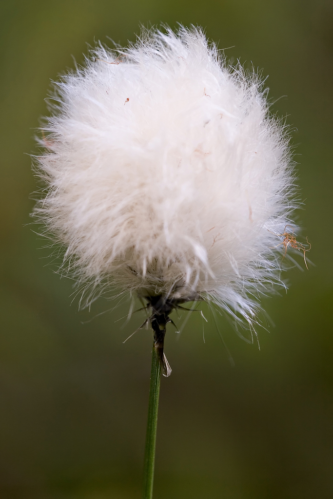 Sheathed Cottonsedge (Eriophorum vaginatum), closeup of inforescence Dysmorodrepanis 18:27, 28 May 2008 (UTC)